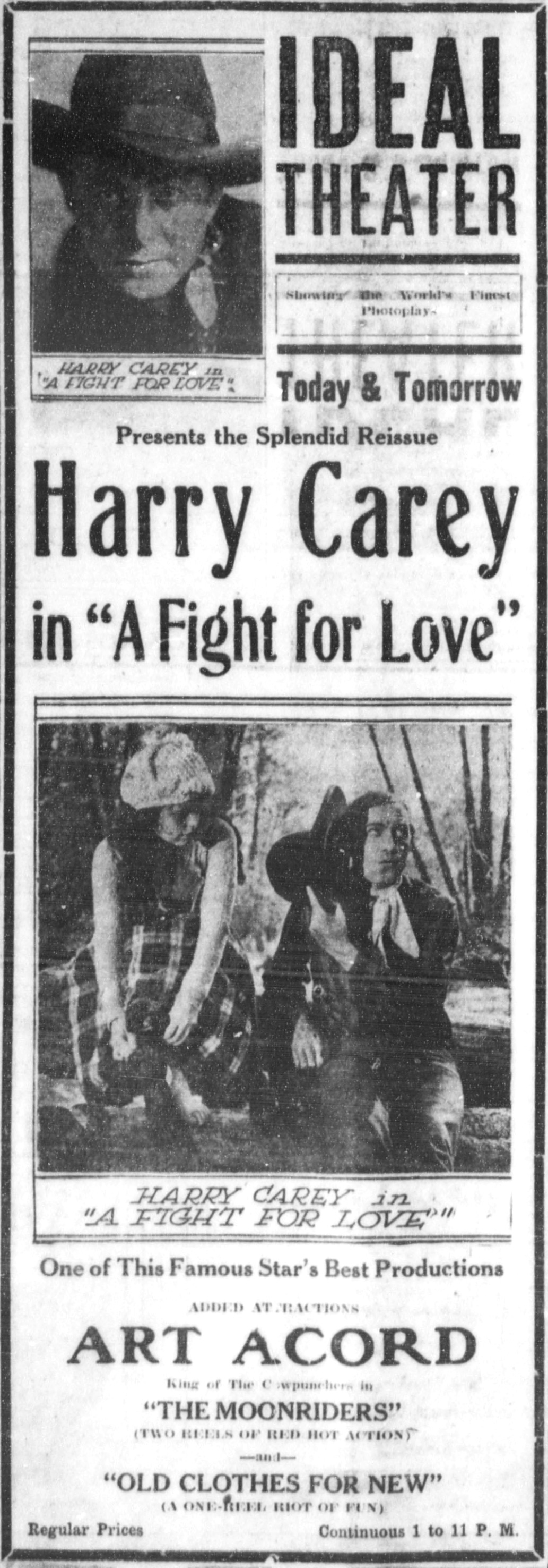 A Fight for Love was a 1919 American Western film directed by John Ford and featuring Harry Carey. This is a 1920 newspaper advert.